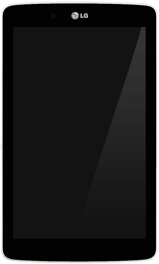 LG G Pad 8.0 render